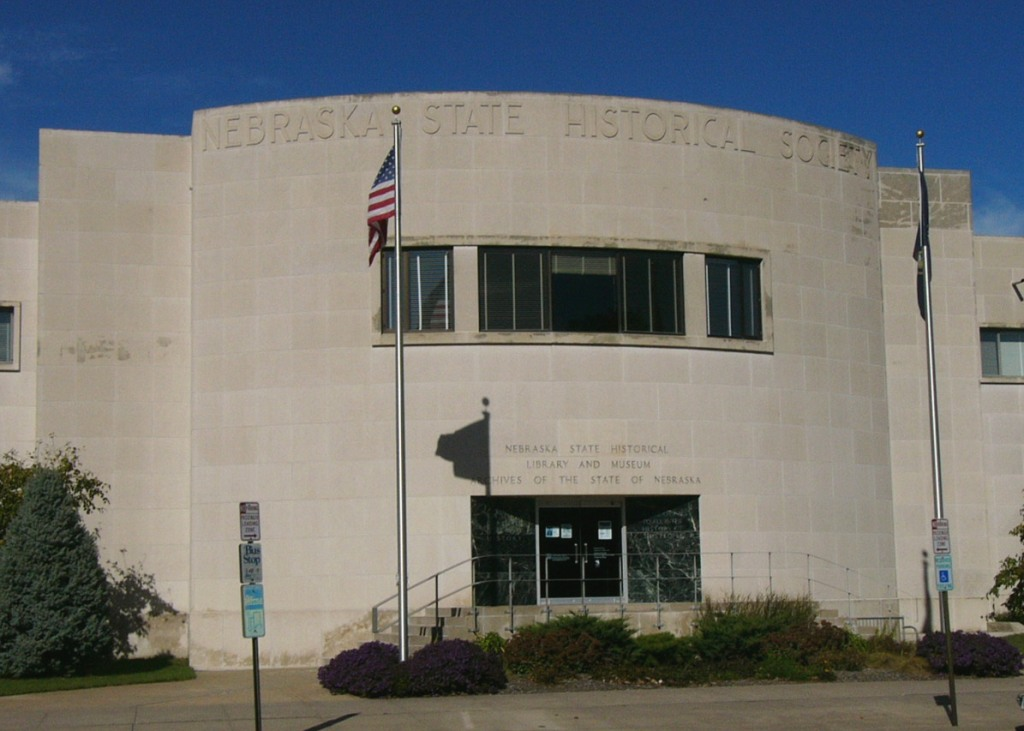 Nebraska State Historical Society Building, Lincoln, Nebraska